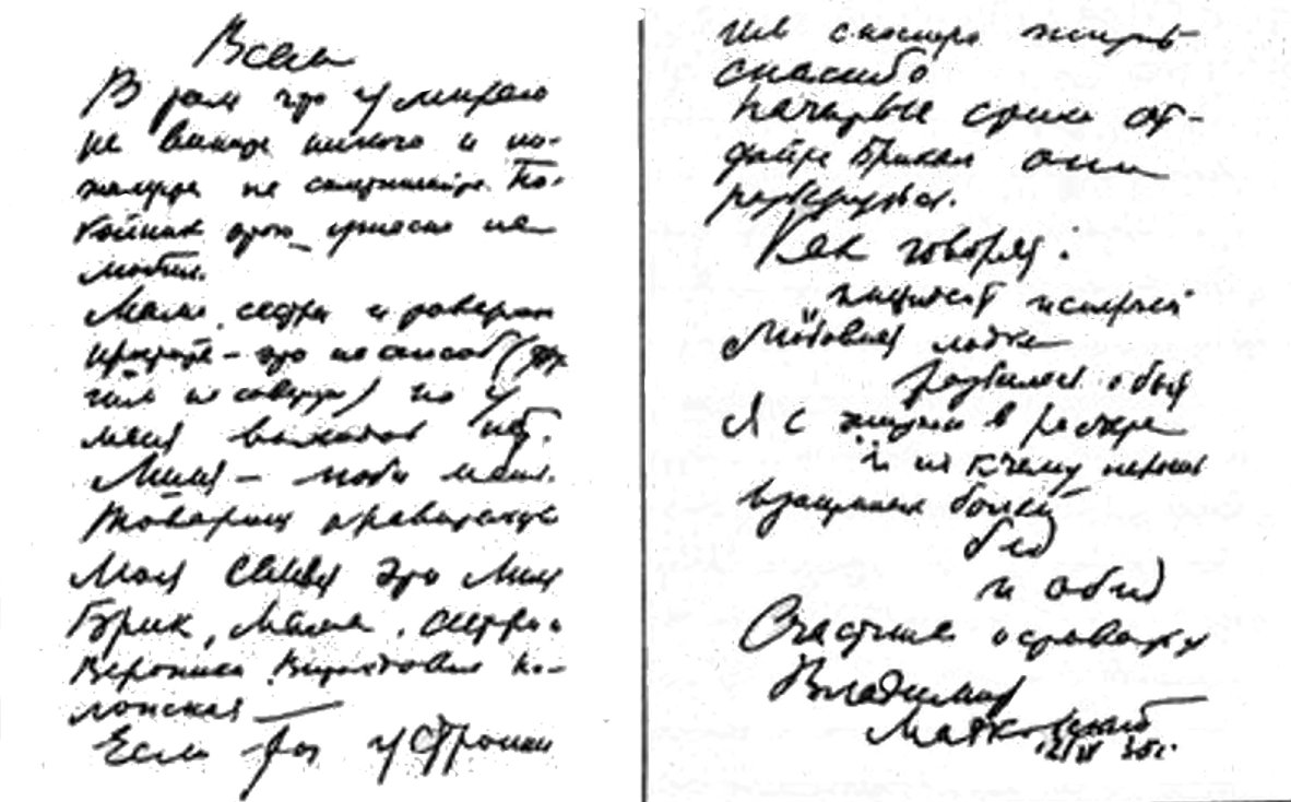 Mayakovsky the Last Letter 12 April 1930